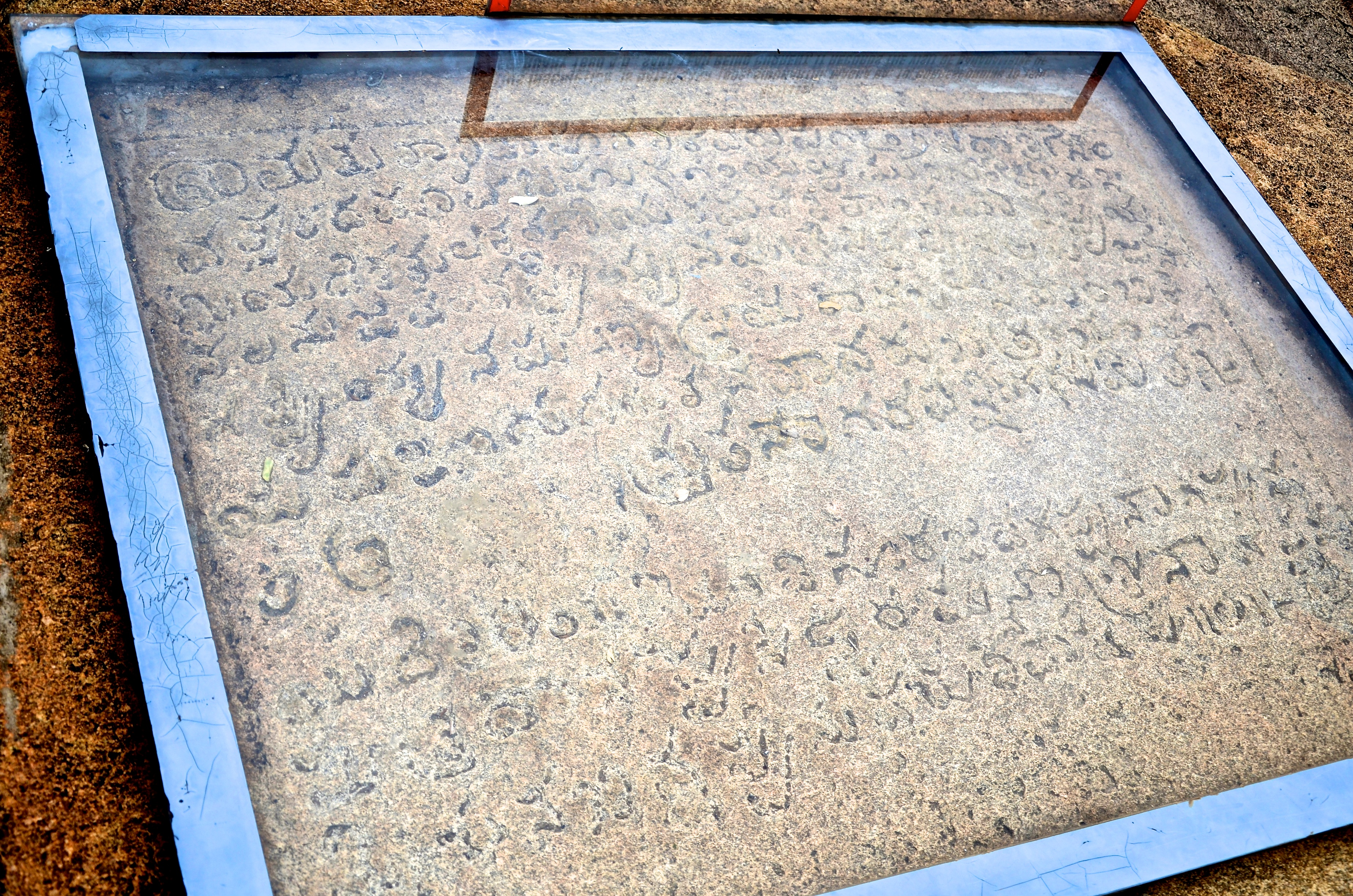 Inscriptions at Odegal Basadi, Vindhyagiri Hill, Sravanbelagola